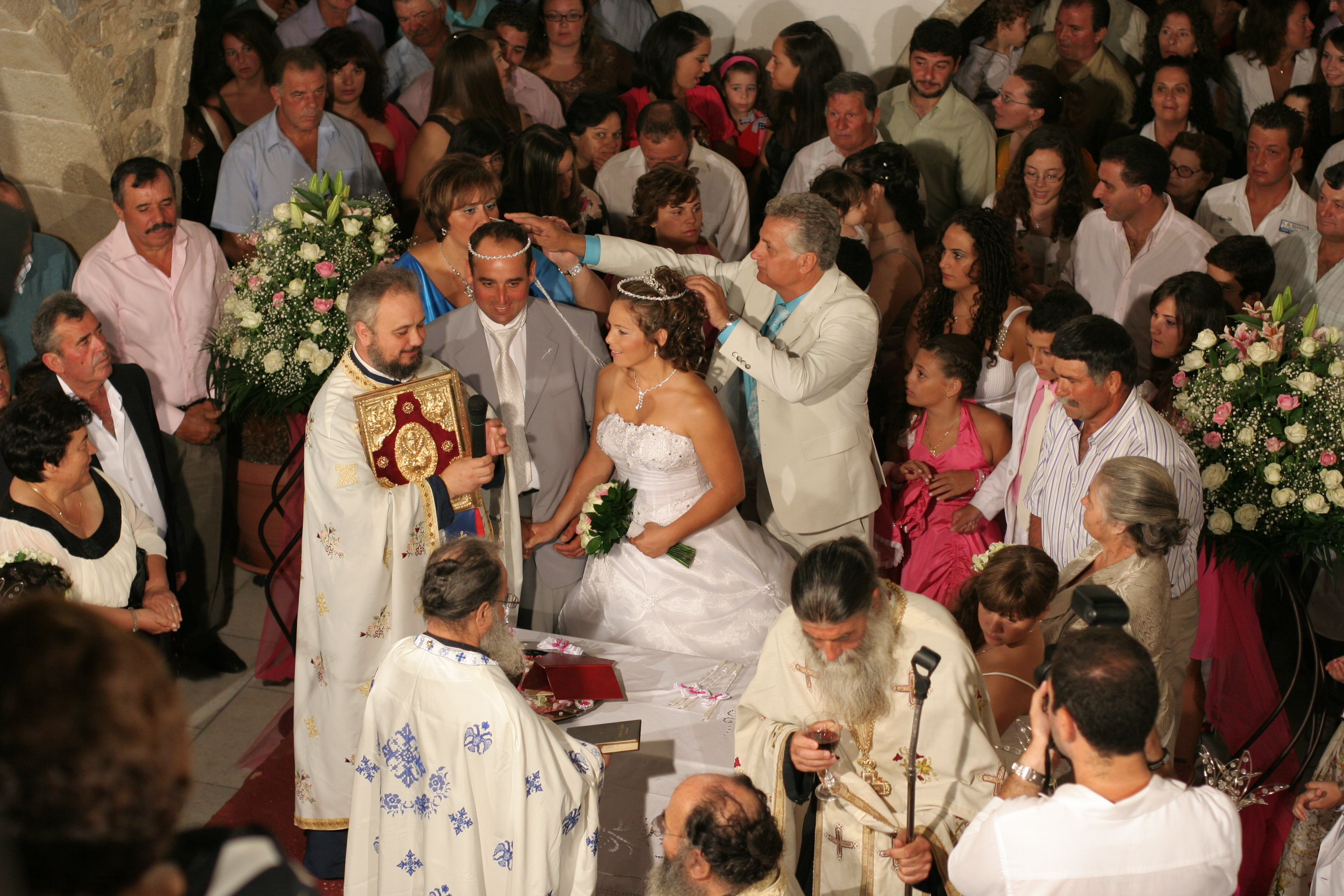 Greek Orthodox wedding in Tripodes (Vívlos, Biblos) on Naxos.